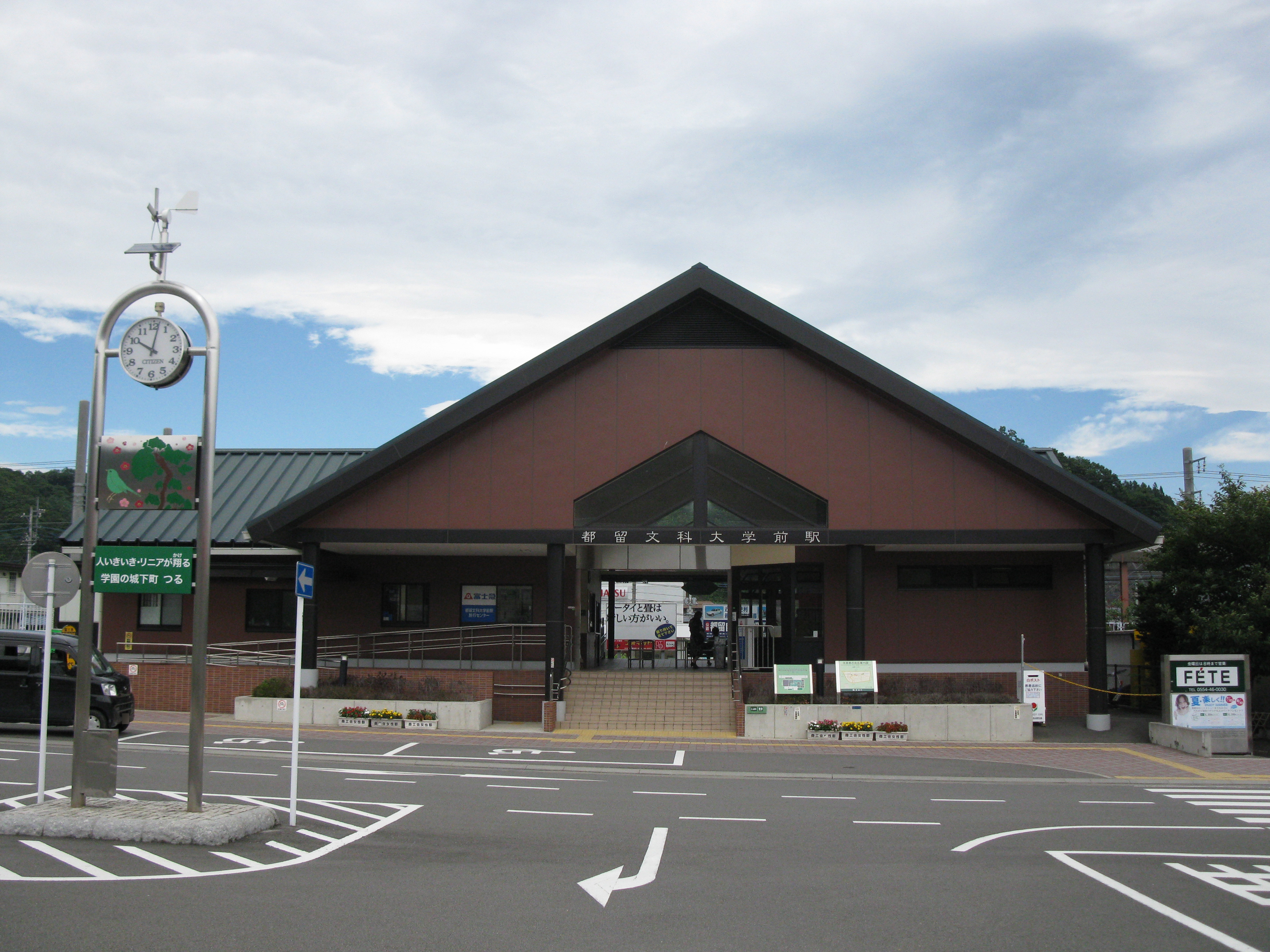 Tsurubunkadaigakumae Station building (Fuji Kyuko Ōtsuki Line)